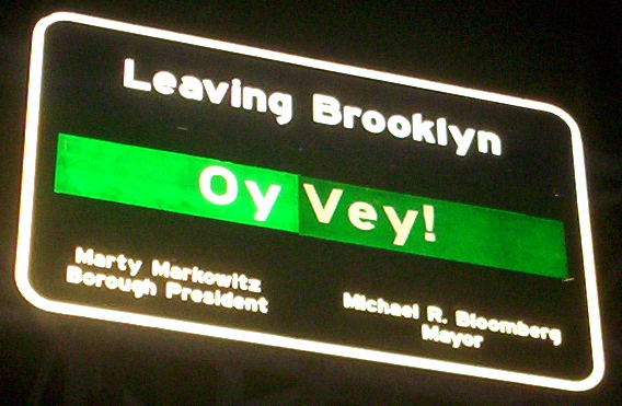 Sign leaving Brooklyn on Williamsburg Bridge saying "Leaving Brooklyn: Oy Vey!"